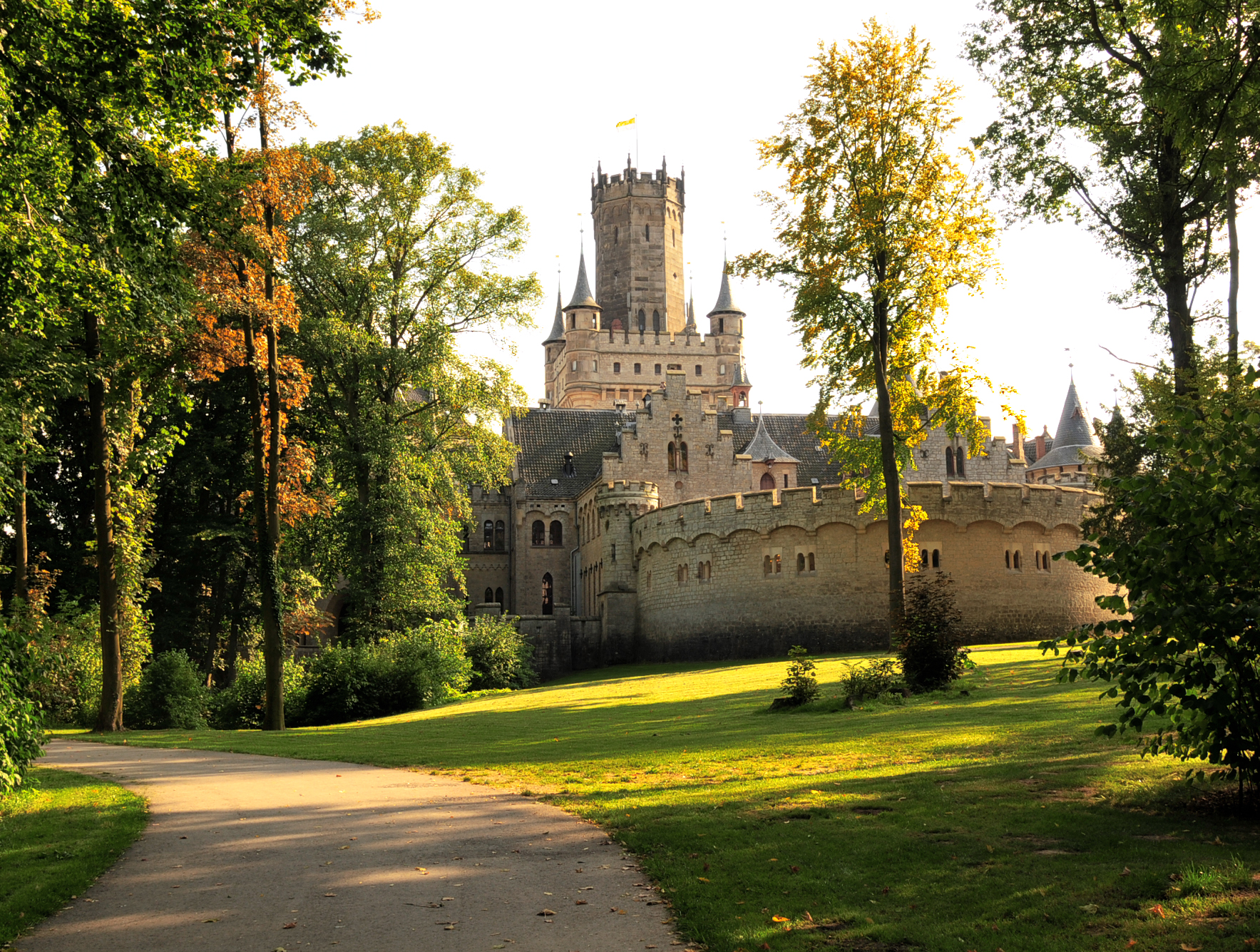 Marienburg Castle is a castle in Hanover, Lower Saxony, Germany, built by Marie of Saxe-Altenburg, Queen of Hanover. The castle mustn't be confused with the Marienburg near Hildesheim.